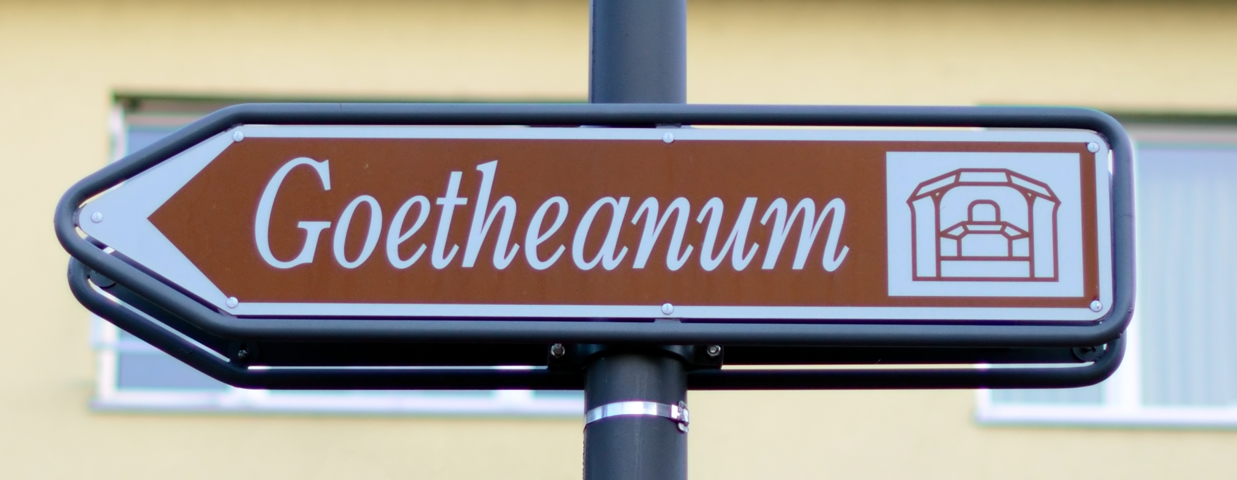 Dornach: direction sign "Goetheanum"